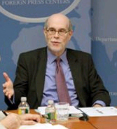 American scholar Harold Holzer, delivering a briefing on "President Abraham Lincoln and the Beginning of the Civil War".